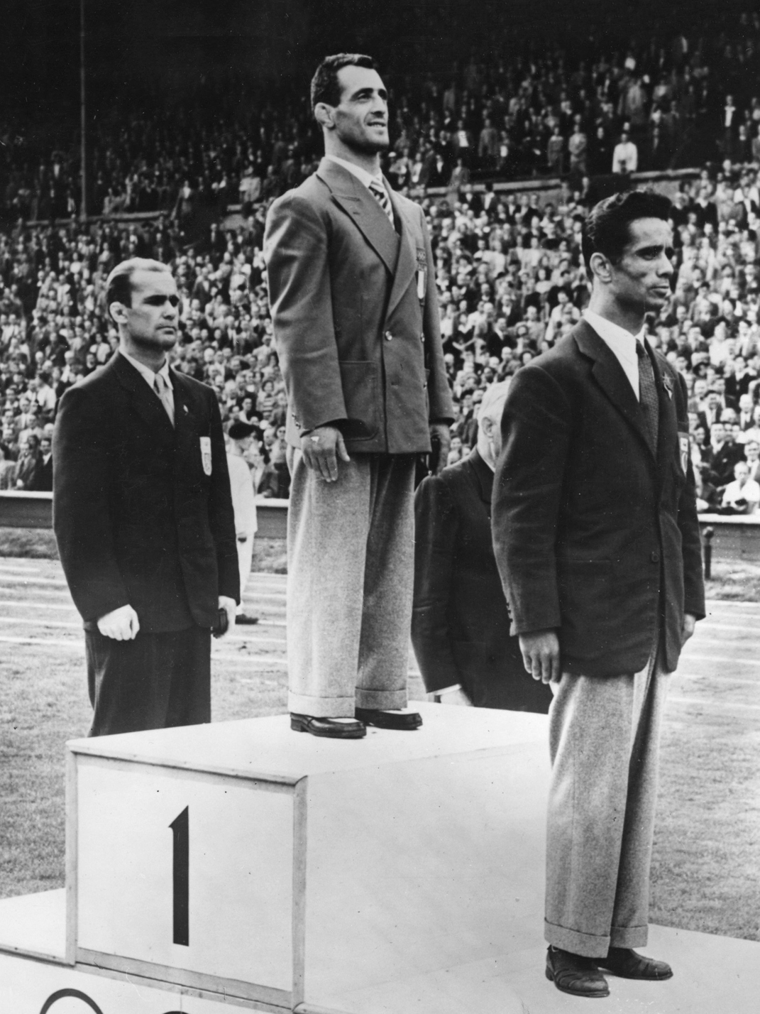 Reino Kangasmäki, Pietro Lombardi, Kenan Olcay at the London Olympics